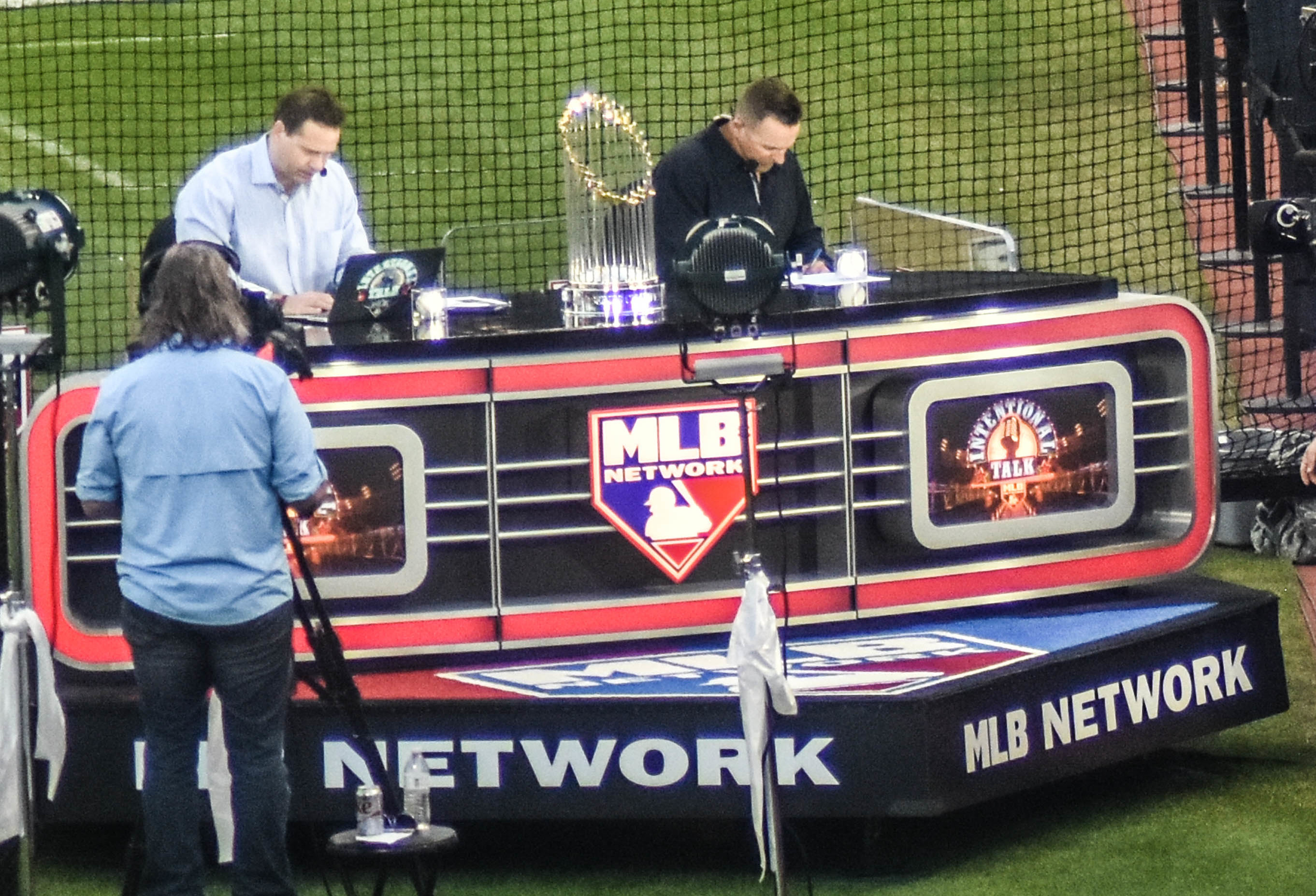 World Series Game 7